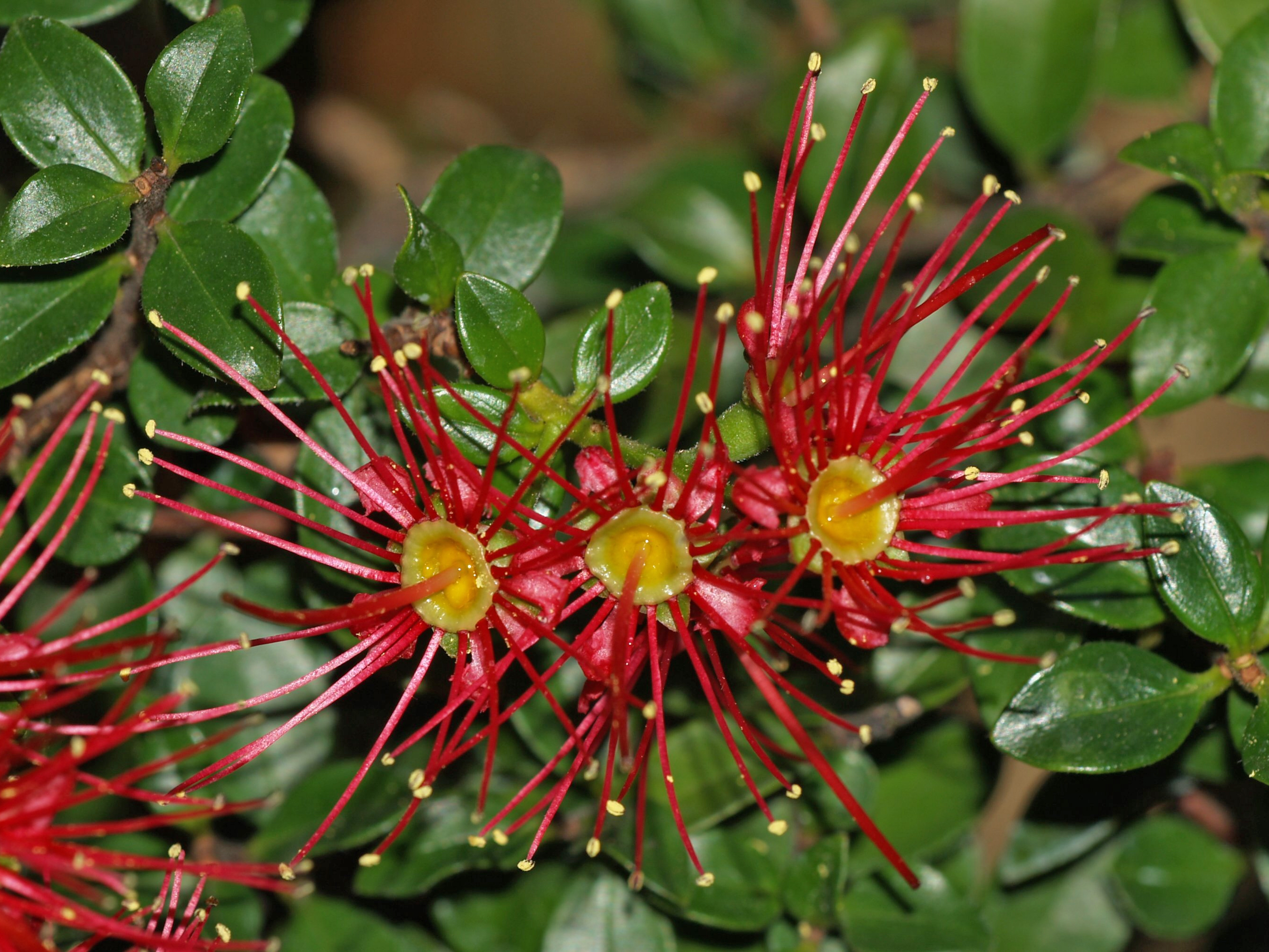 Flowers and leaves of Metrosideros carminea in the Botanical Garden (Flora) of Cologne, Germany. Common names: Crimson Rātā, Carmine Rātā. Endemic to New Zealand.